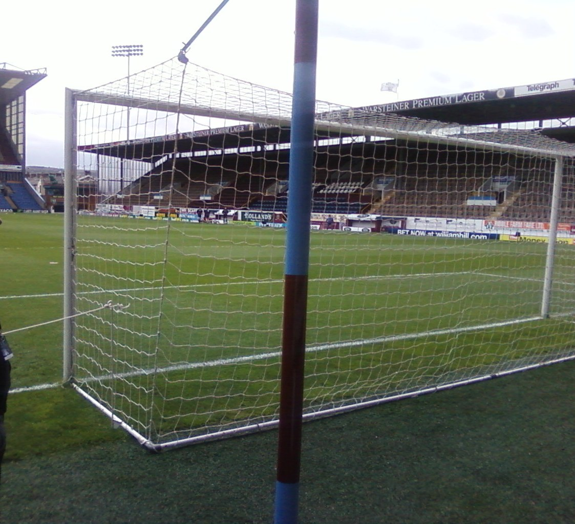 View of the Bob Lord Stand at Turf Moor, Burnley from behind the goal at the Cricket Field End